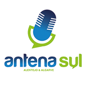 Antena Sul